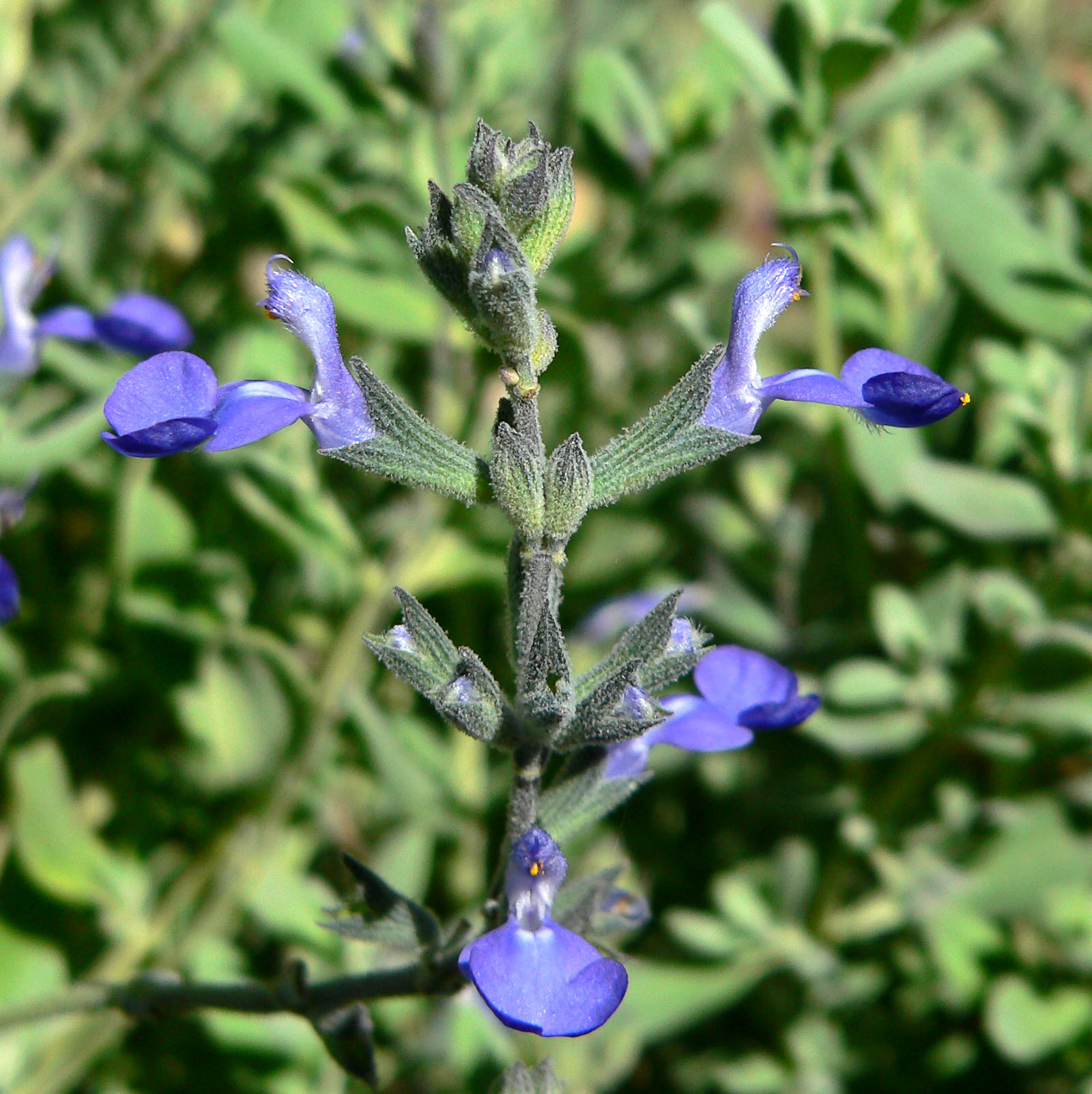 Salvia chamaedryoides at the Springs Preserve garden, Las Vegas, Nevada